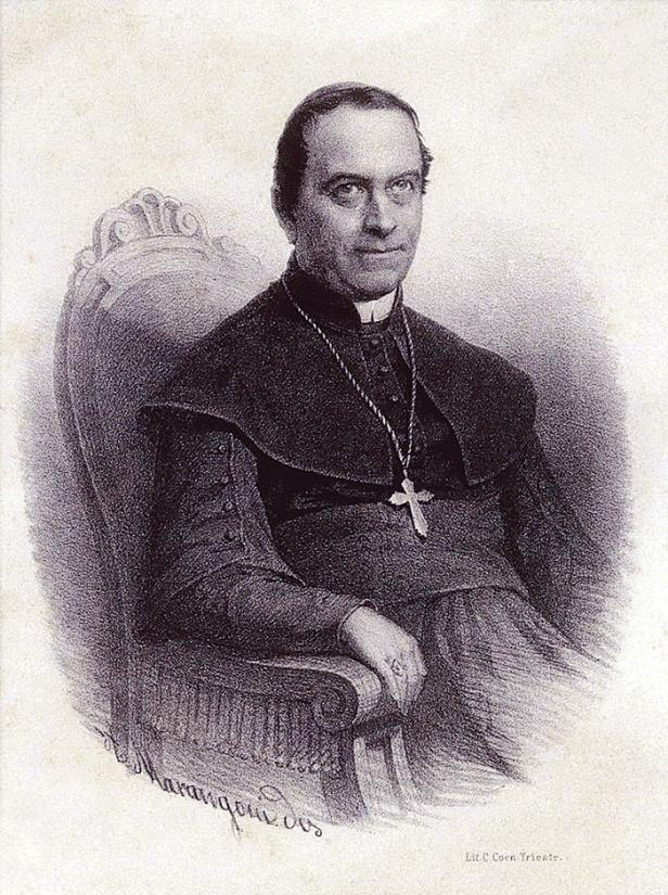 Jernej Legat (1807-1875), Slovenian bishop of Triest-Koper